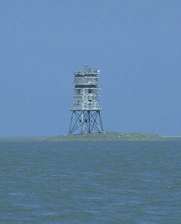 Front Light Eversand